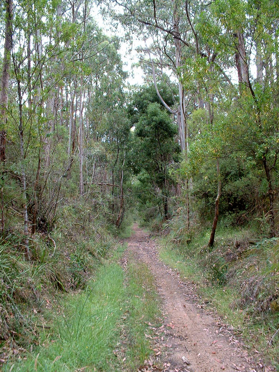 A view of the old railway line which ran between Colac and Beech Forest, Victoria. This was a narrow gauge railway. It is now a walking track.